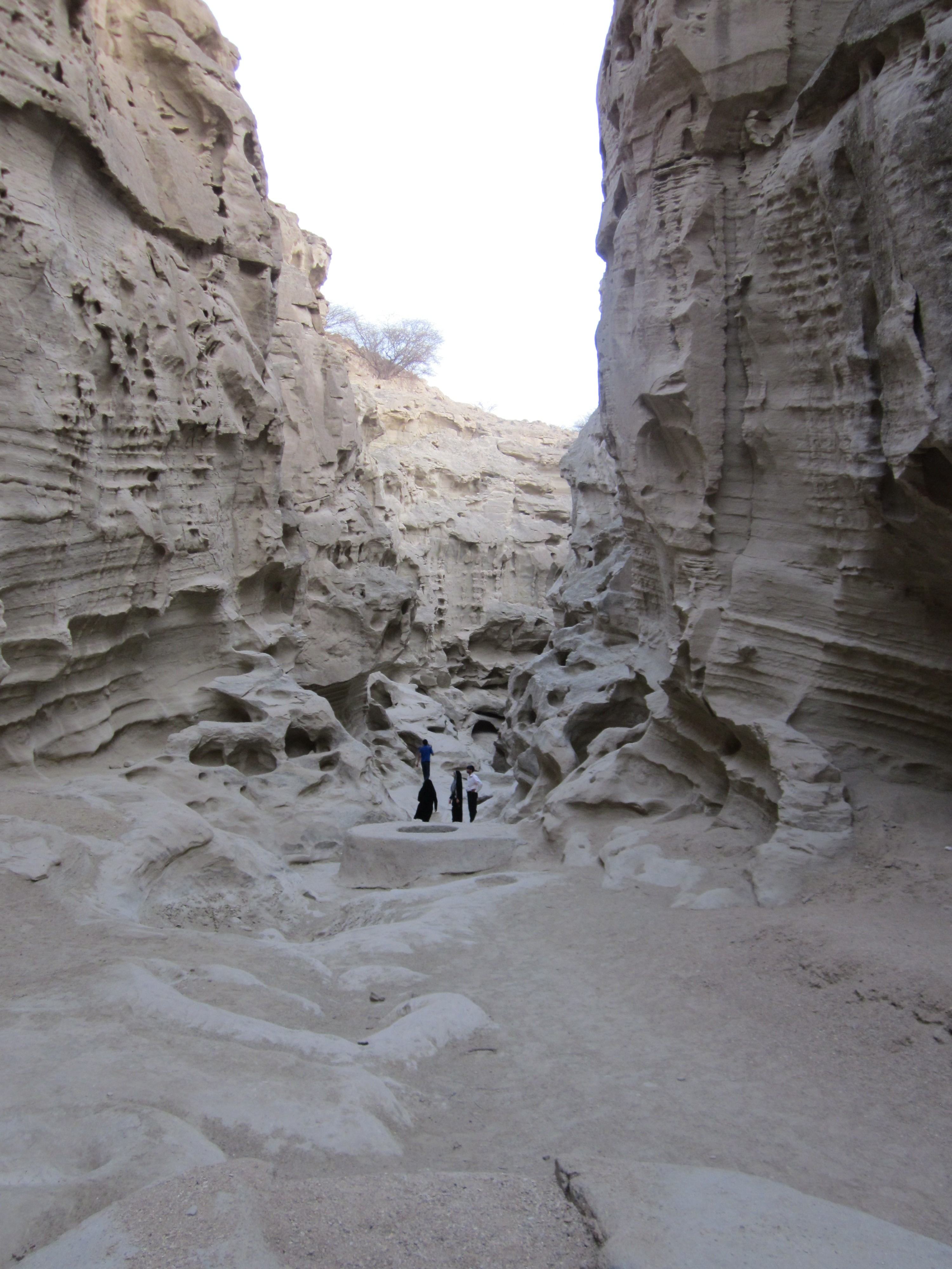 Chah Kooh Valley, Qeshm Island, Iran.